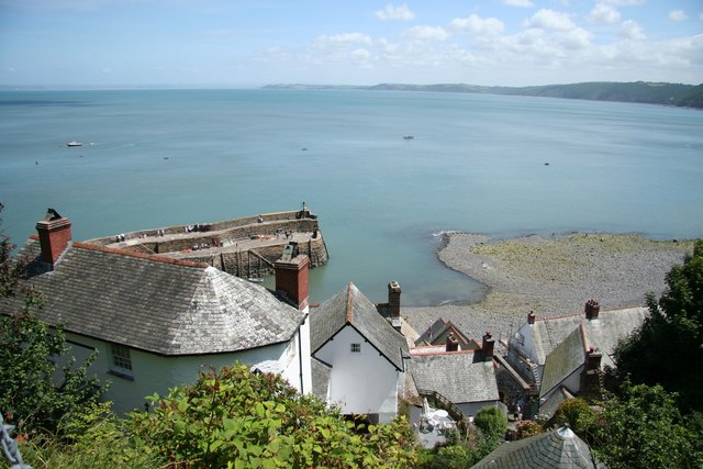 Harbour view